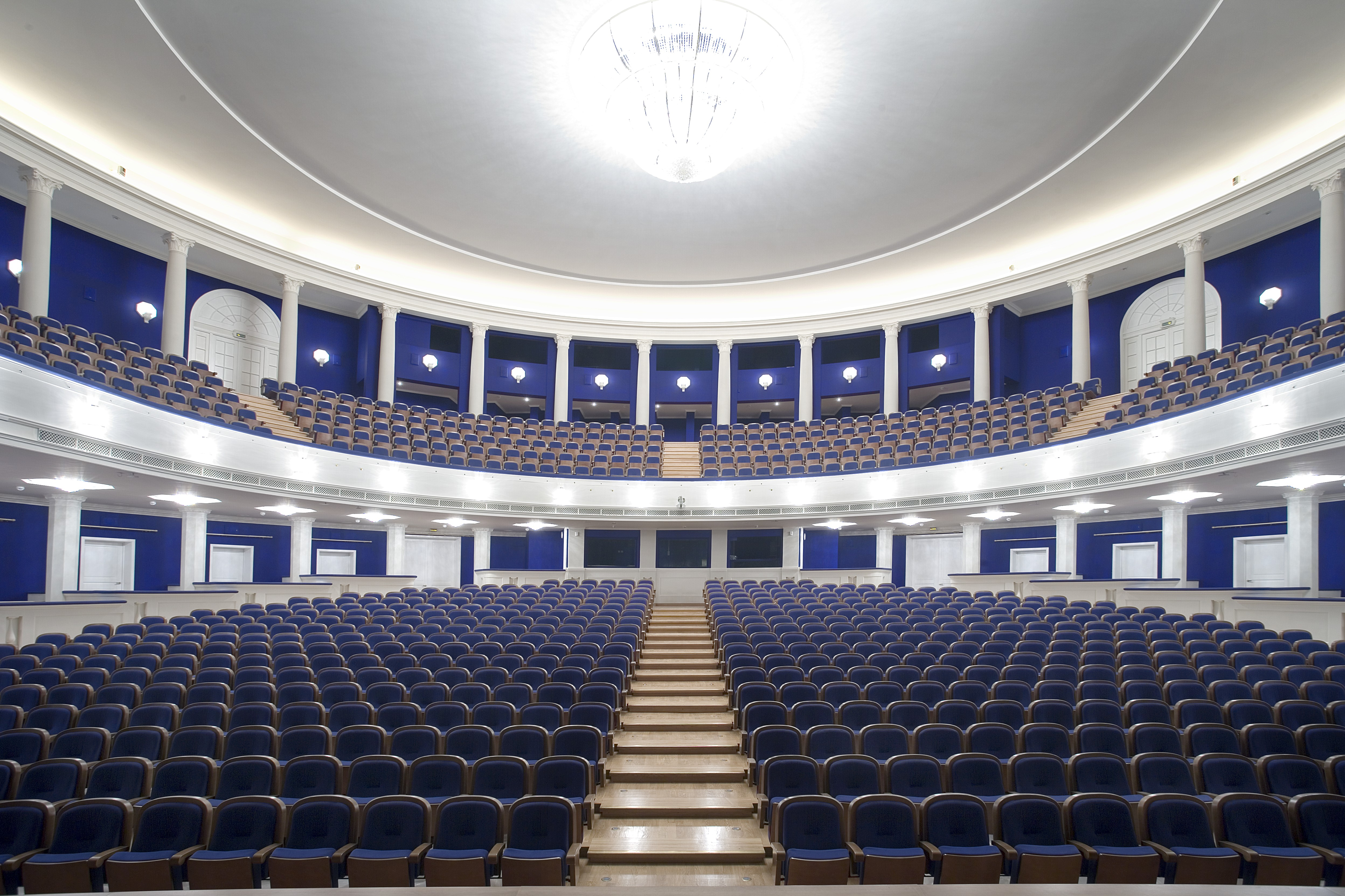 View on theatre hall